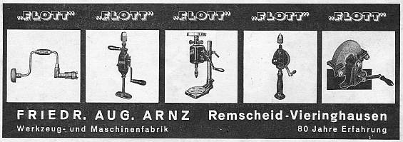 Anzeige 1939